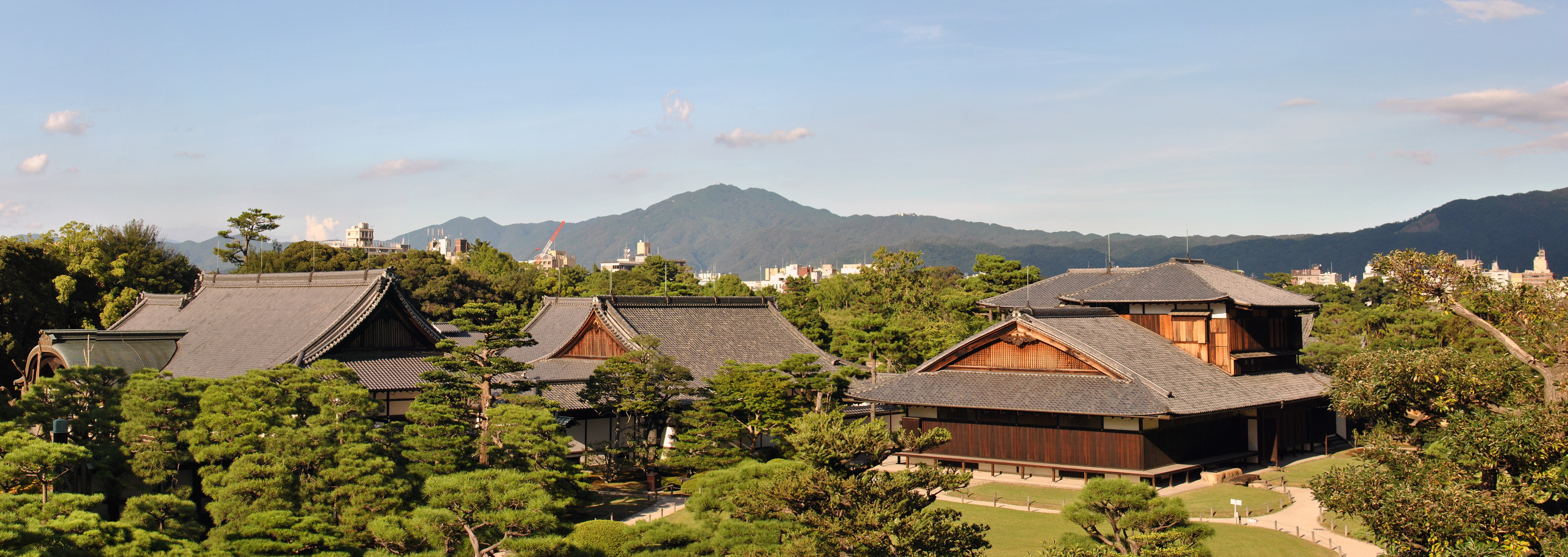 Nijo Castle